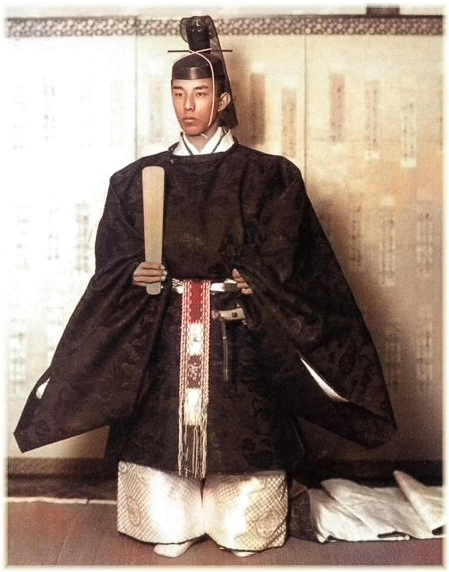 Tsukuba Fujimaro. He was formerly Prince Fujimaro.